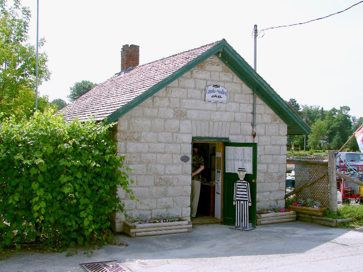 "Canada's smallest jail" in Coboconk (City of Kawartha Lakes), Ontario, Canada